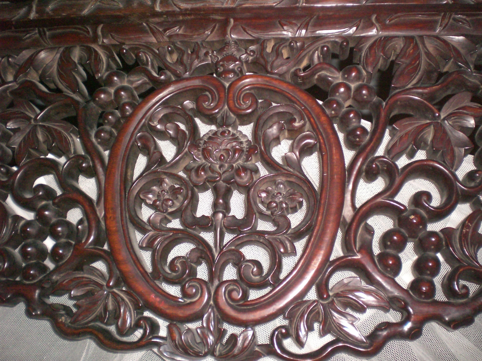 香港歷史博物館